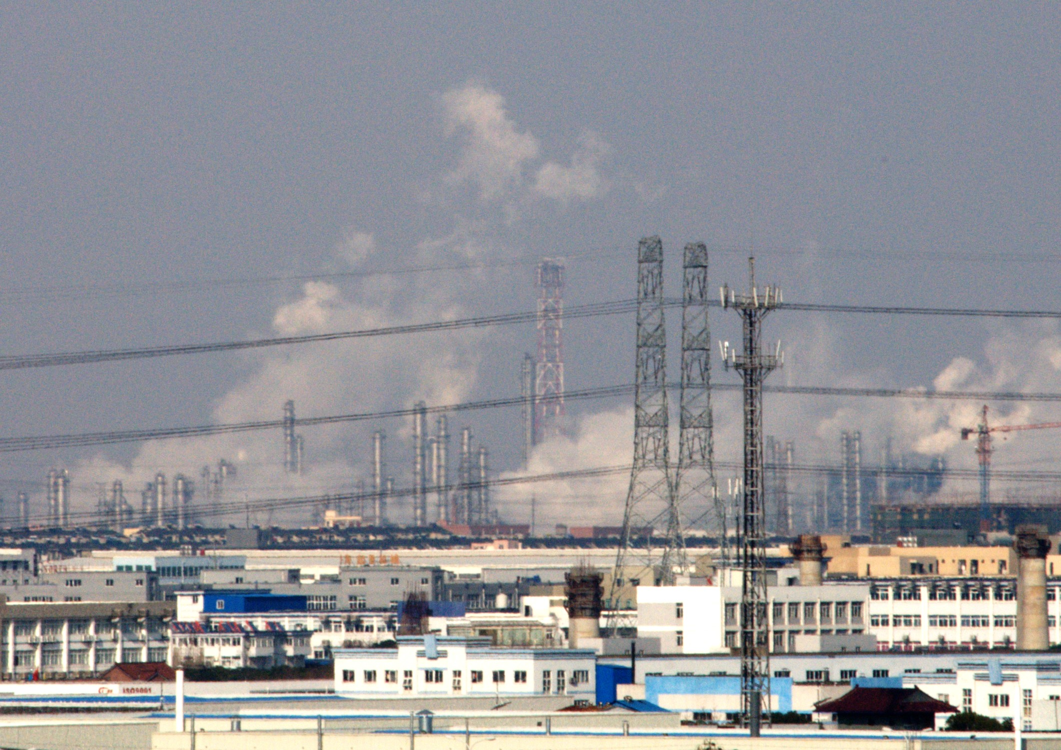 Smog in Ningbo Chemical Zone